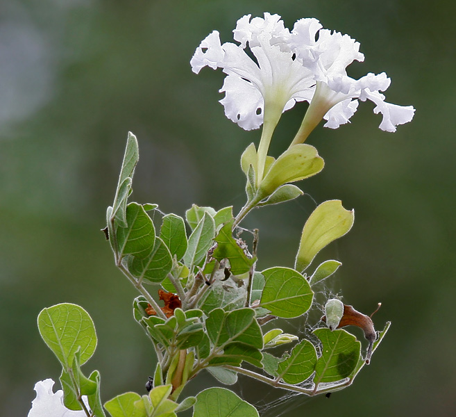 Dolichandrone falcata - Medhshingi • Hindi: Hawar • Marathi: मेढ़शिंगी Medhshingi, भेड़सींग Bhersing • Tamil: Kadalatti, Kaliyacha, Kattuvarucham • Malayalam: Attulottappala, Nirpponnalyam • Telugu: Chittiniruvoddi, Chittivoddi • Kannada: Godmurki, Muduvudure, Udure • Oriya: Mrigosingo • Sanskrit: Mesasrnga, Visanika - in Hyderabad, India.